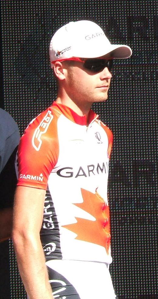 Named cyclist at the en:2009 Tour Down Under team presentation